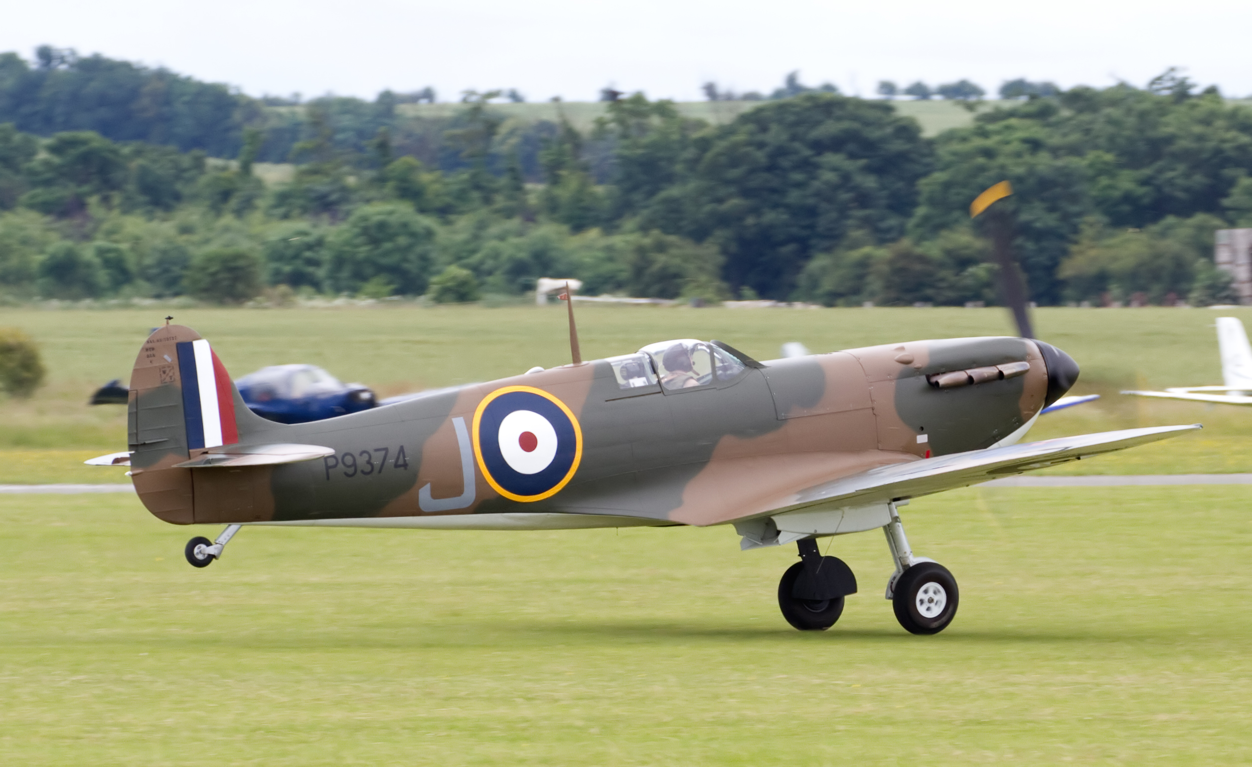 Spitfire Mk1A P9374 2